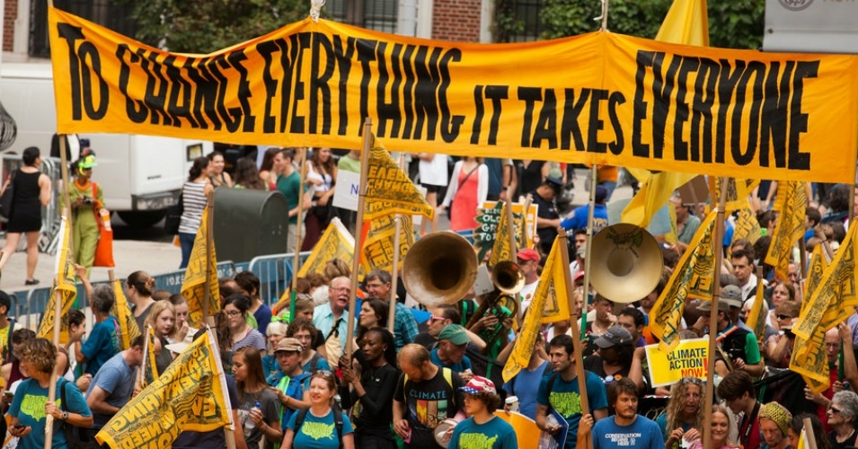 A photo from the People's Climate March in 2014, which brought together hundreds of thousands of people to demonstrate in favor of strong action on climate change.